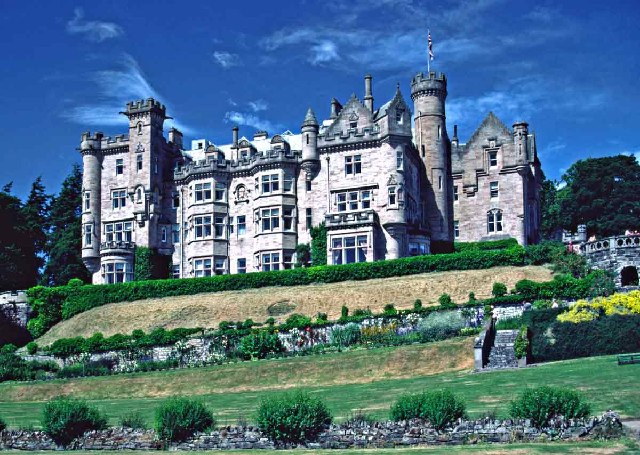 Skibo Castle near Dornoch. Skibo Castle is situated just to the west of Clashmore and the A9 trunk road, some 4 miles West of Dornoch. Skibo Castle was built between 1899 and 1903 for the American steel magnate and philanthropist Andrew Carnegie and his wife Margaret as their Scottish retirement home. A substantial baronial mansion overlooking the Dornoch Firth, Skibo incorporated another house built some 20 years earlier. Now a hotel, Skibo Castle was used by Madonna when she married Guy Ritchie.